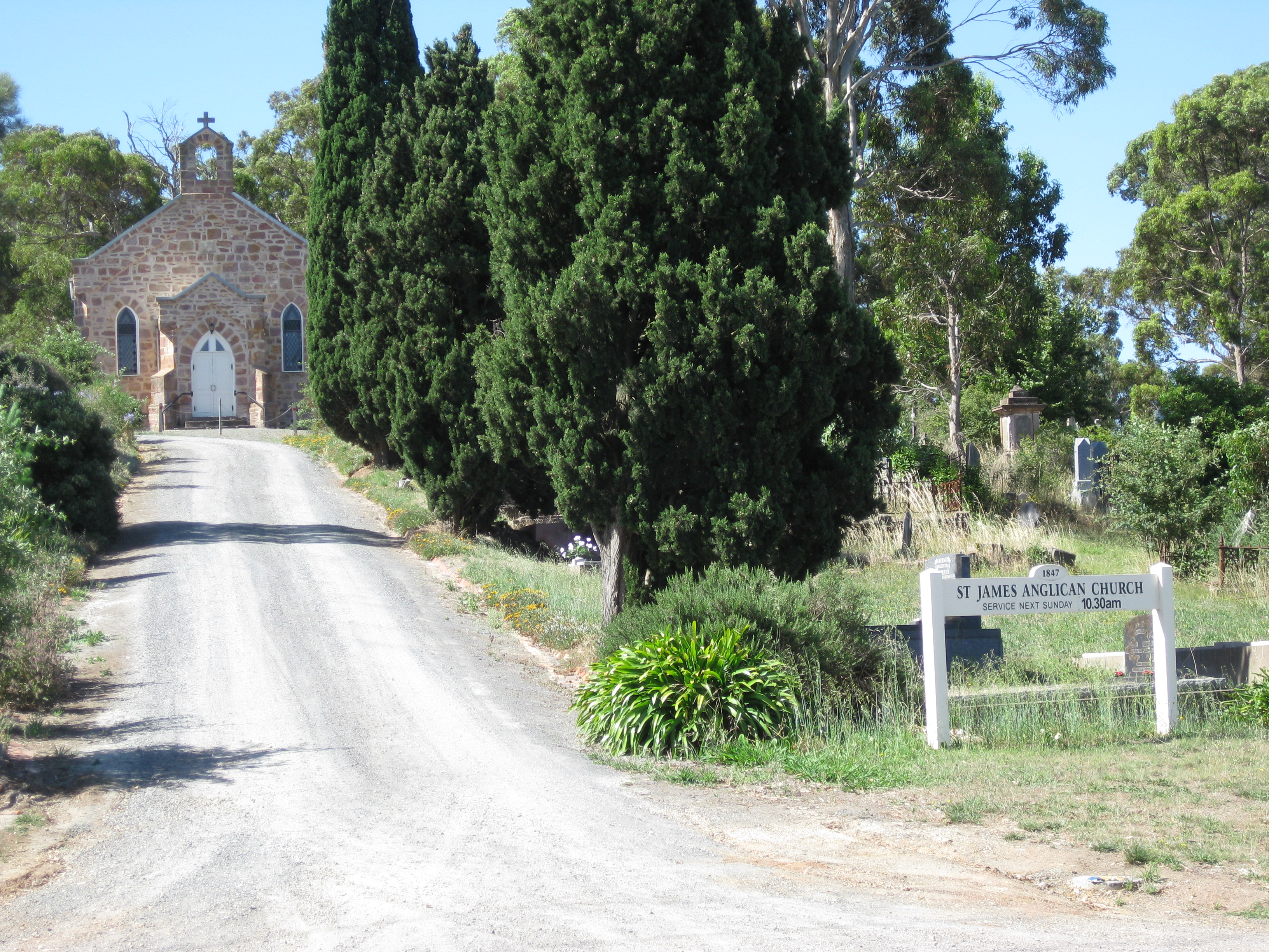 Main entrance and church at Blakiston, South Australia.